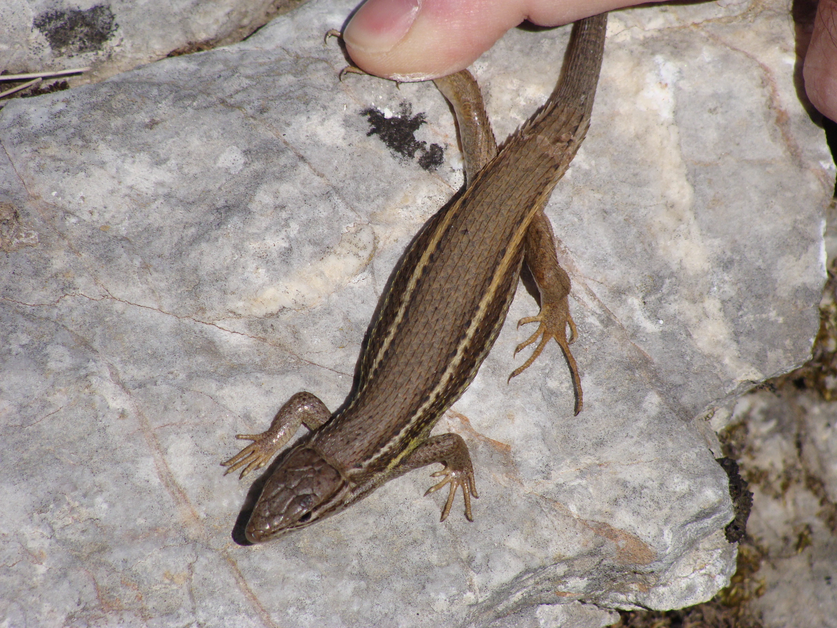 Psammodromus manuelae female in the Natural Park of Serra de Enciña de Lastra, Orense, Galicia, Spain.